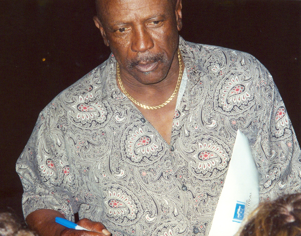 Louis Gossett Jr at the 2005 Toronto Film Festival